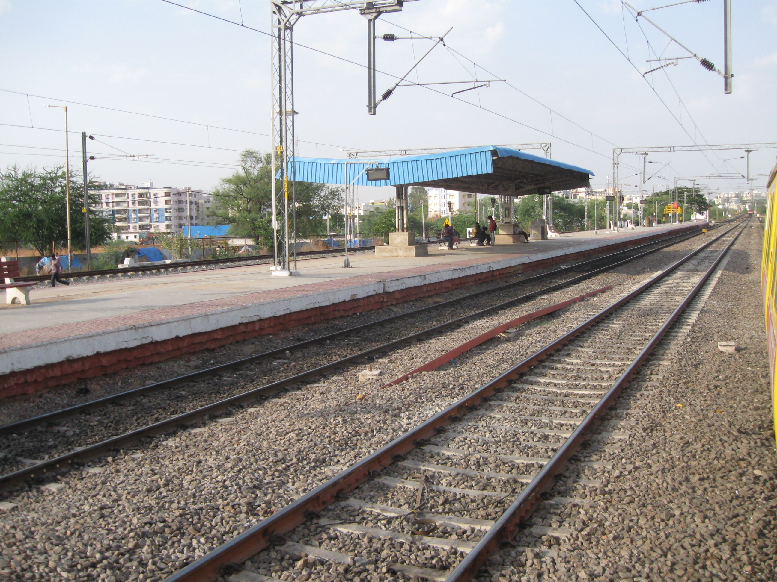 Platforms 2 and 3 of Lingampally Railway station